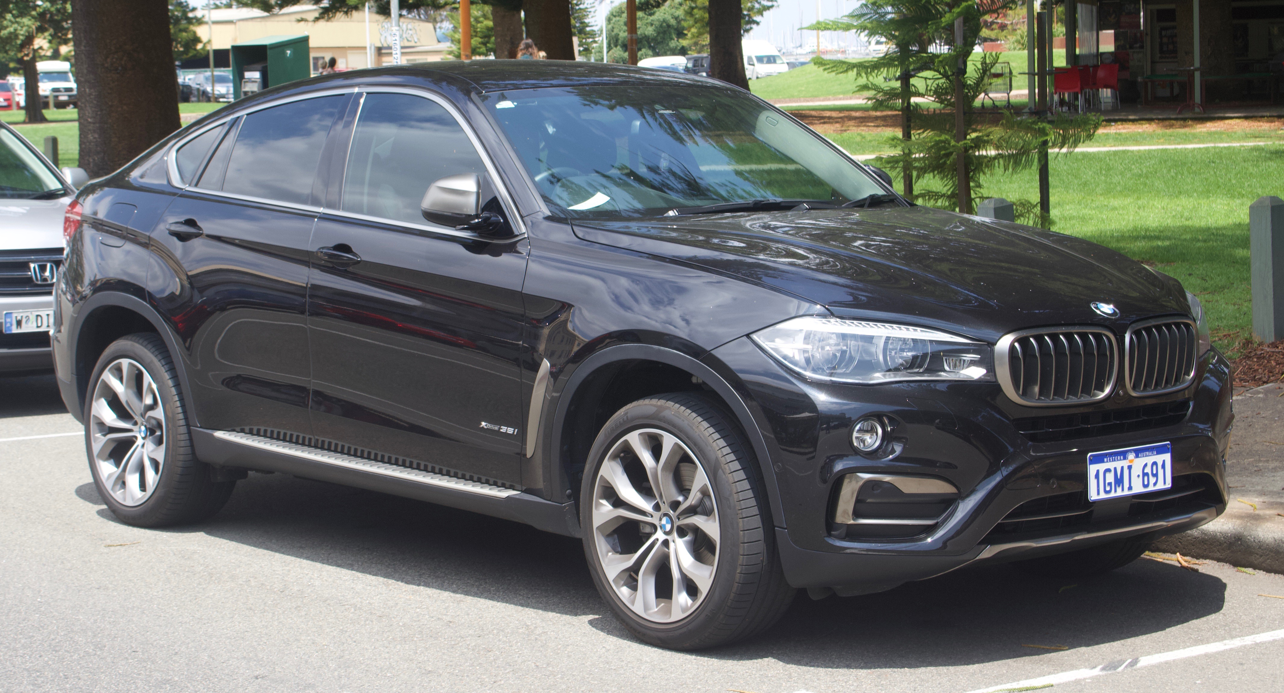 2018 BMW X6 (F16) xDrive35i wagon. Photographed in Fremantle, Western Australia, Australia.